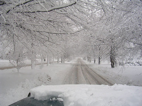 Snow in April.